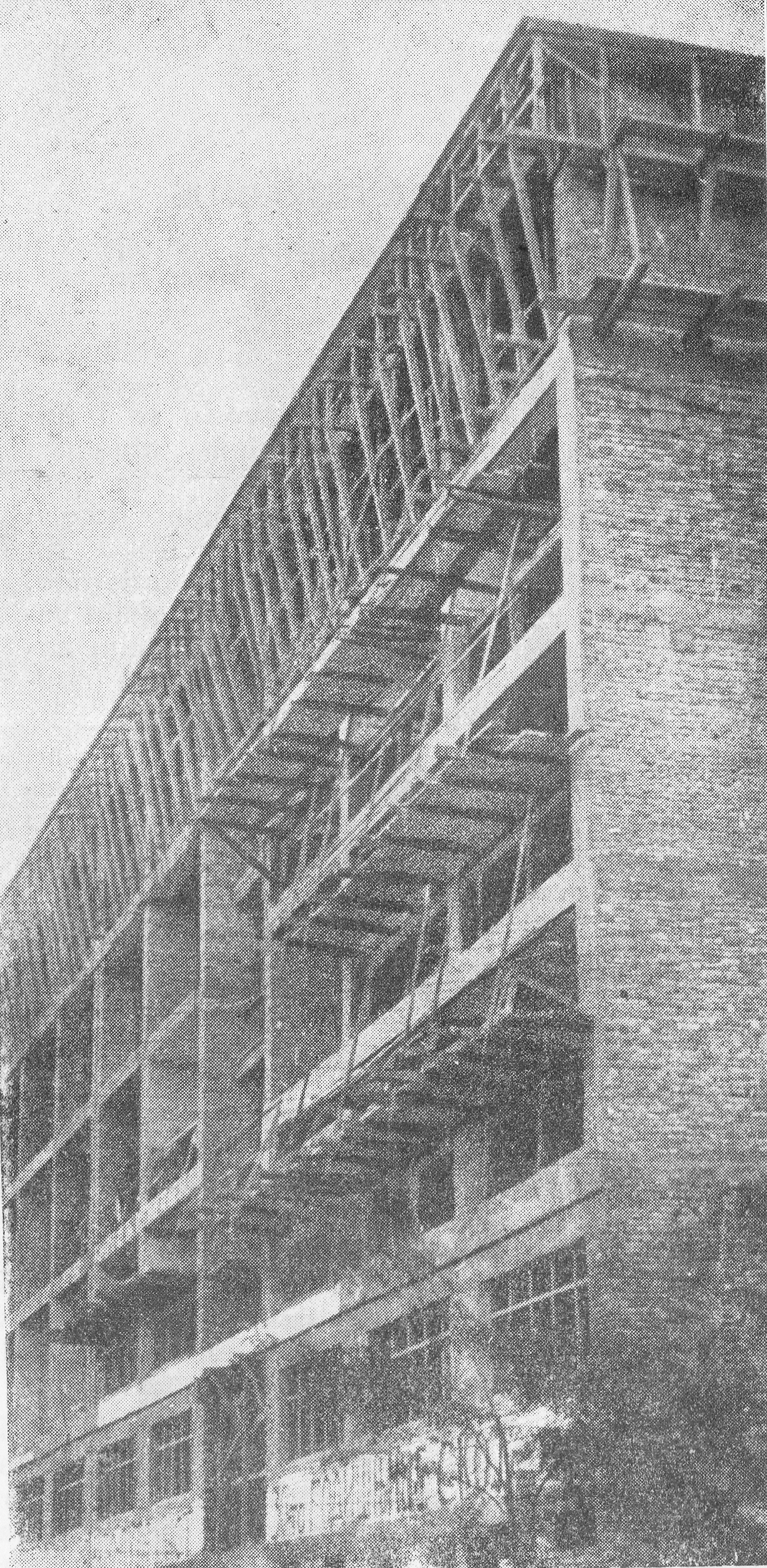 The building of Student Town in New Belgrade with 865 rooms (1948-1950)